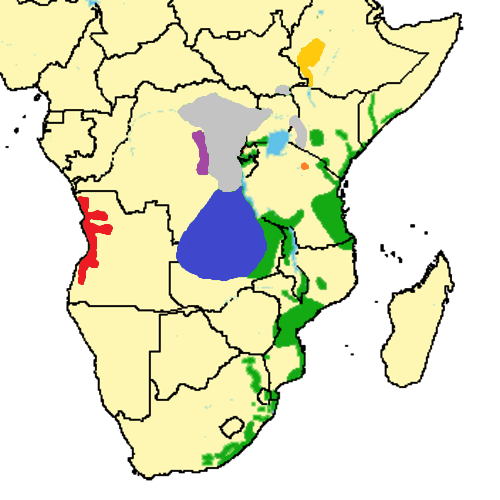 Ranges of subspecies of the Samango monkey eastern complex Cercopithecus mitis mitis (Angola) C. m. boutourlinii (perhaps extinct) C. m. elgonis C. m. heymansi C. m. manyaraensis C. m. opisthostictus C. m. schoutedeni (Idjiwi & Shushu, Lake Kivu) C. m. stuhlmanni